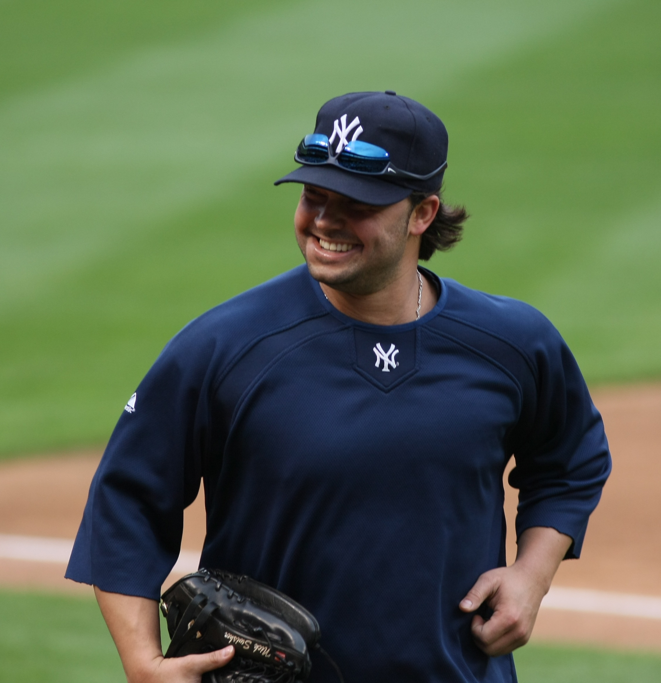 Nick Swisher